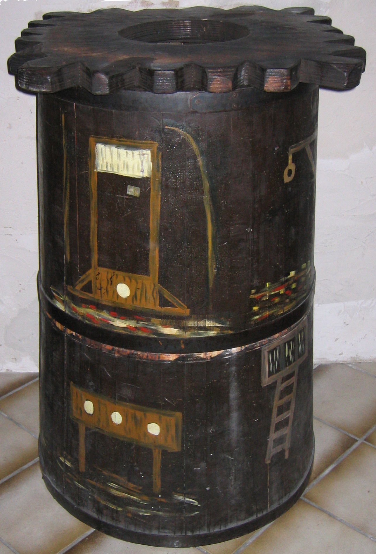 ? at the torture museum in Freiburg im Breisgau